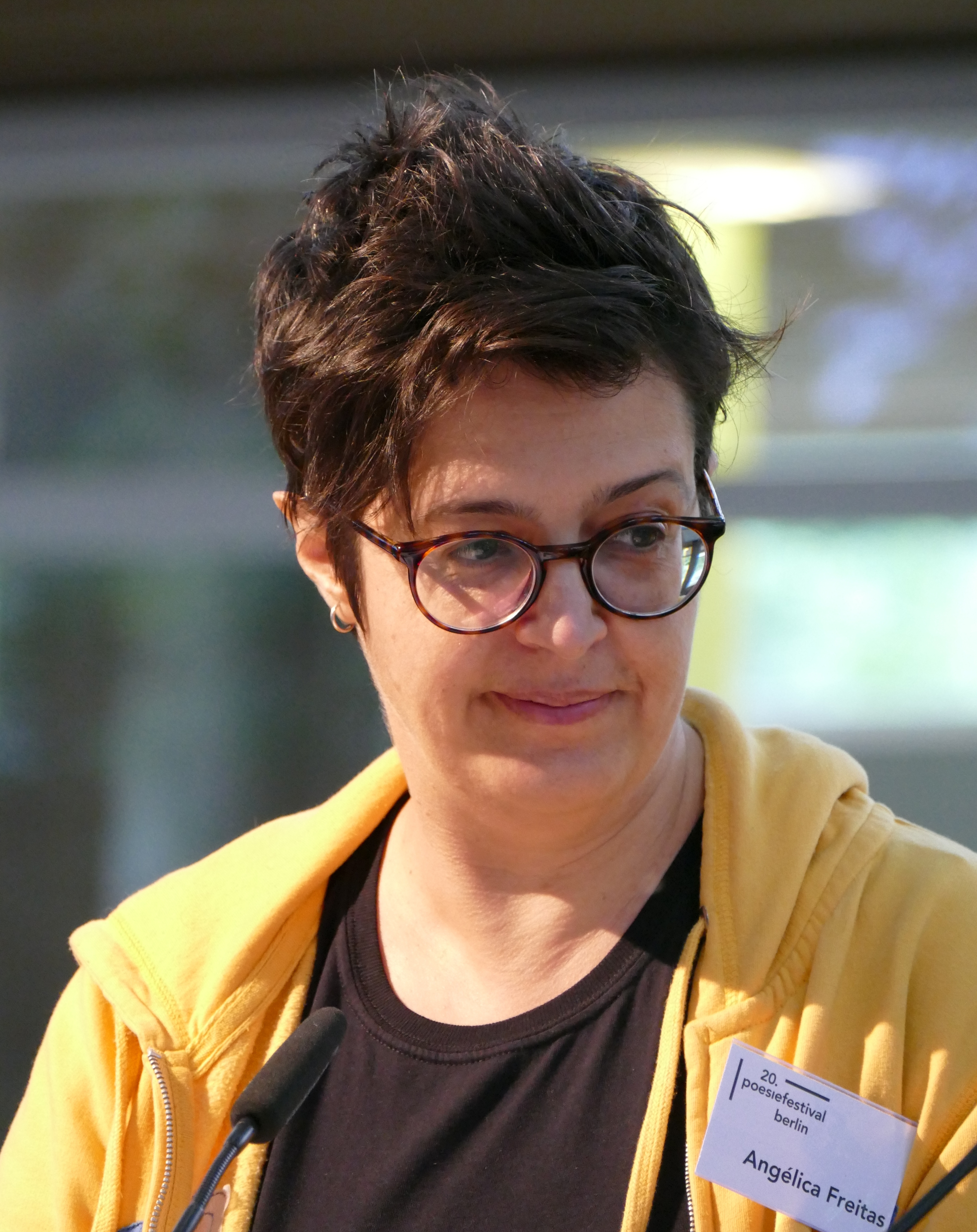 Angélica Freitas at Lyrikmarkt Berlin 2019